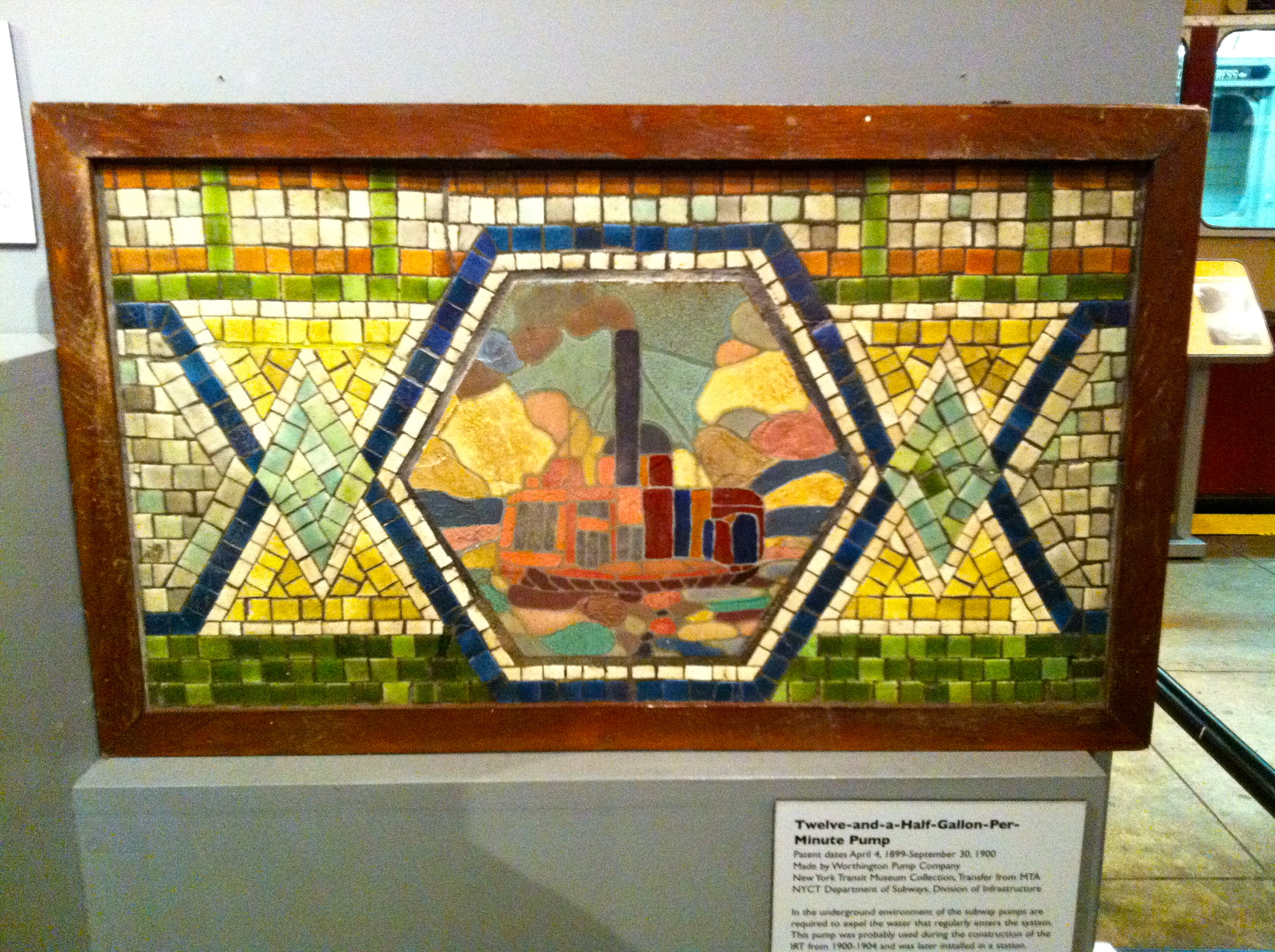 NYC Subway Museum Cars Sept 2011 - 7The central hexagonal plaque is a single piece made to appear as a mosaic composite. (Object Record for ID XX.2010.498. New York Transit Museum.)